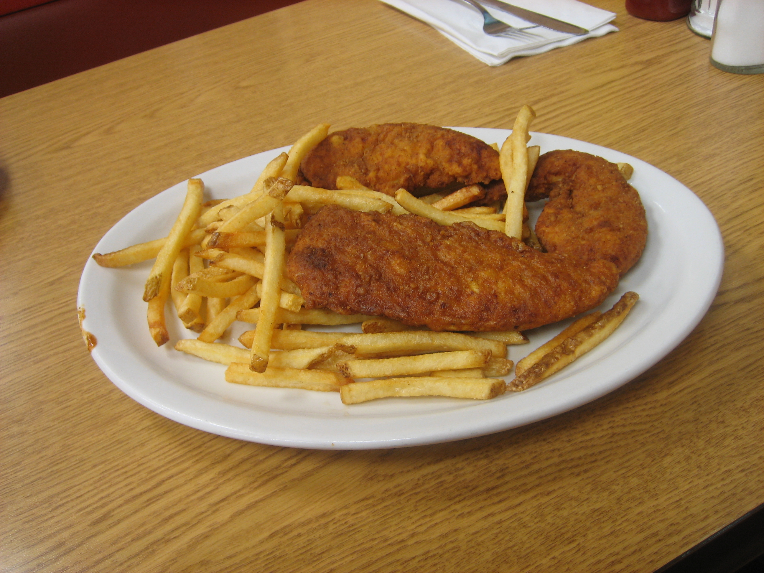 A plate of chicken fingers with french fries